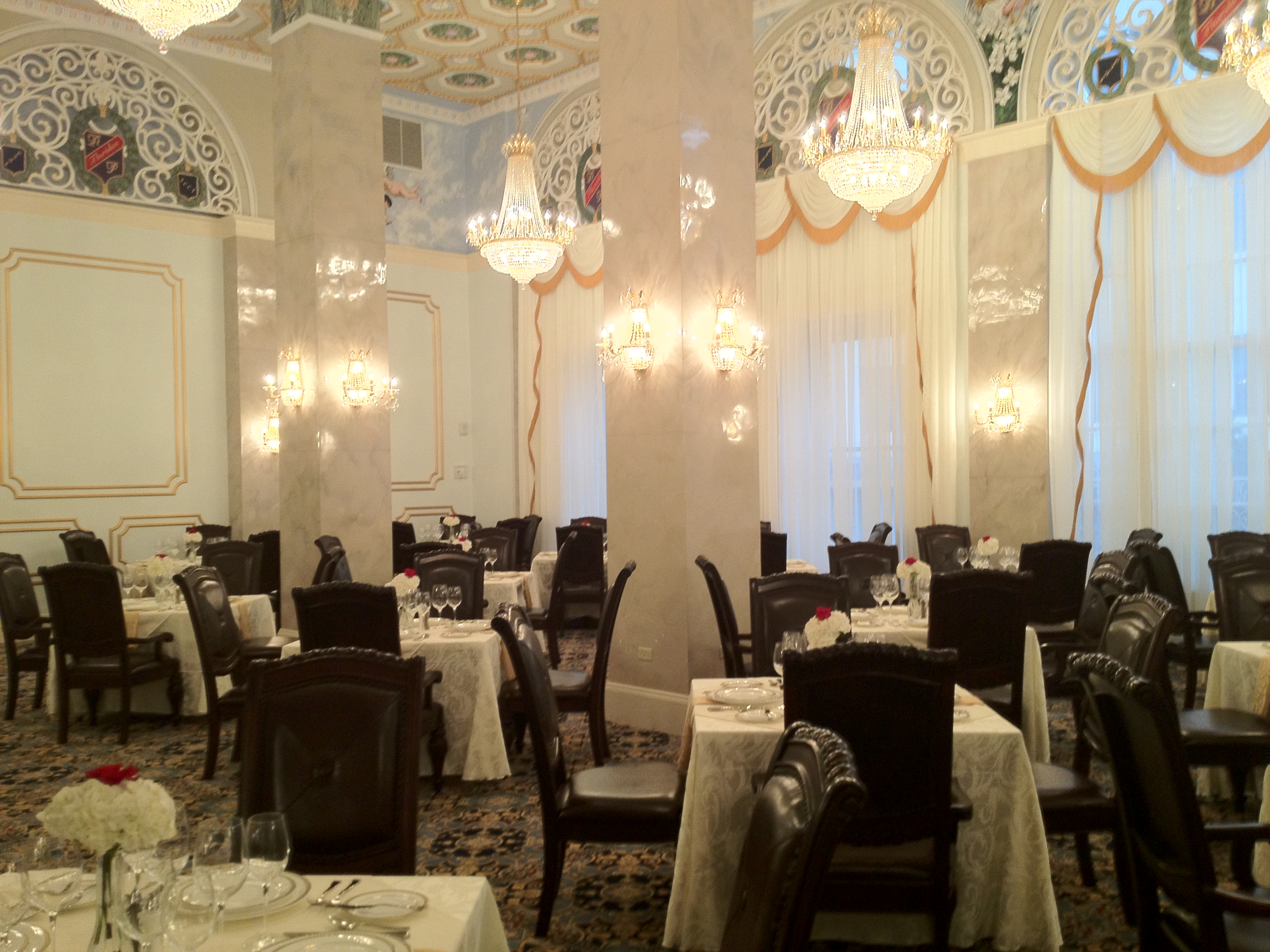 A photo of the Crystal Dining Room at the Floridan Palace Hotel, Tampa, Florida.